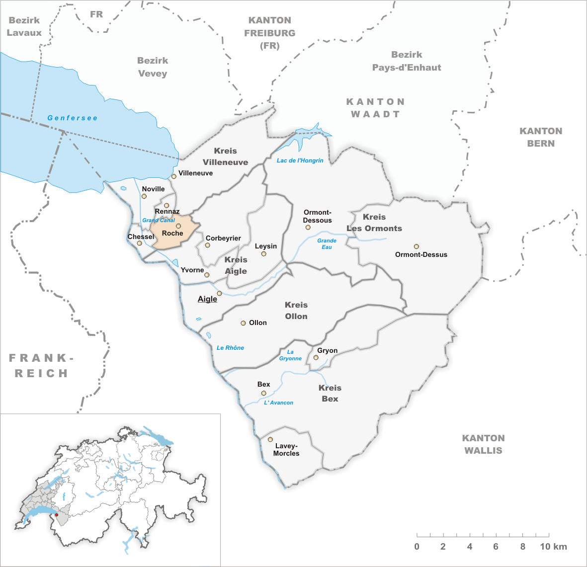 Municipality Roche